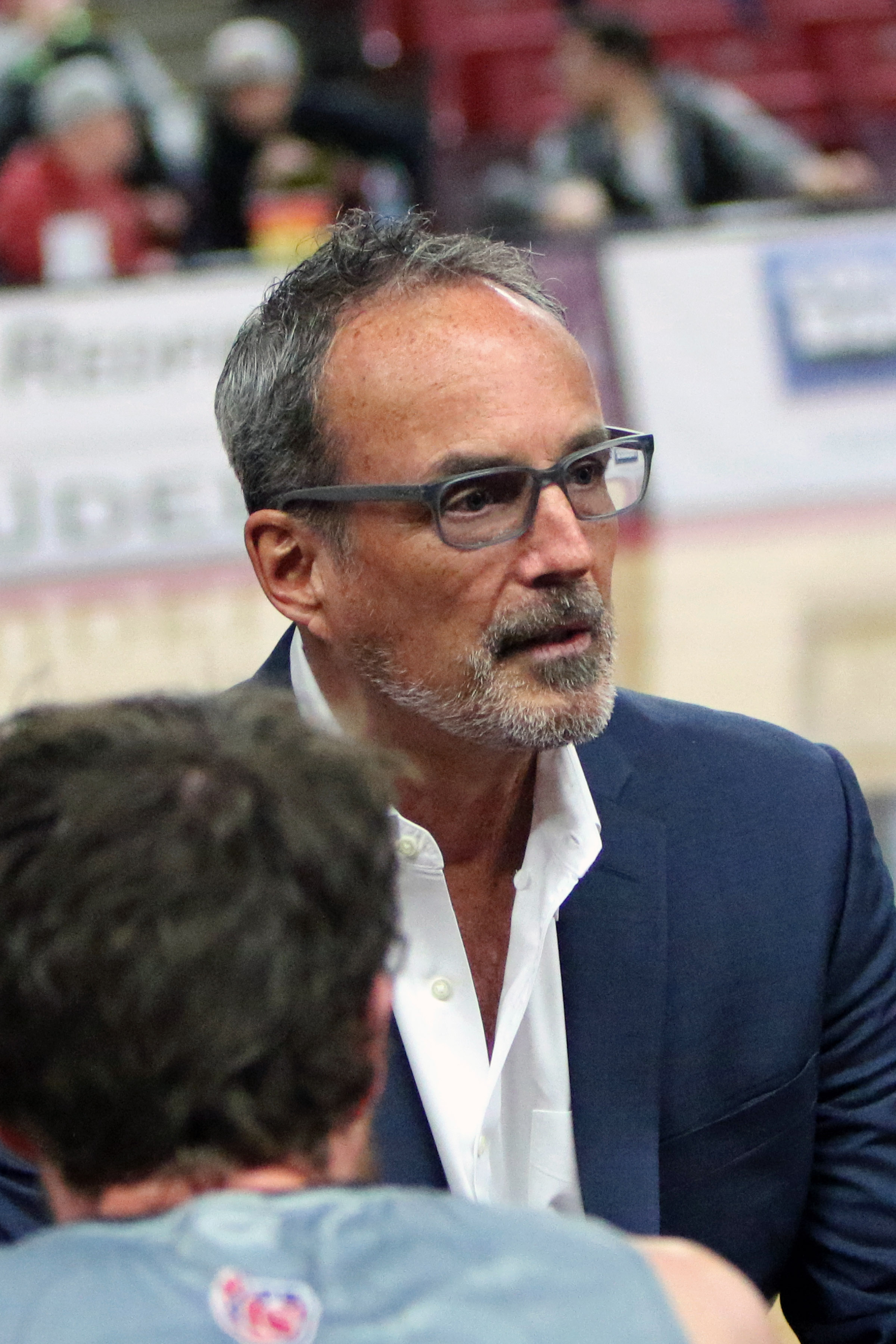 Paul Woolpert coaching the SunKings at the Yakima SunDome. April 2019.